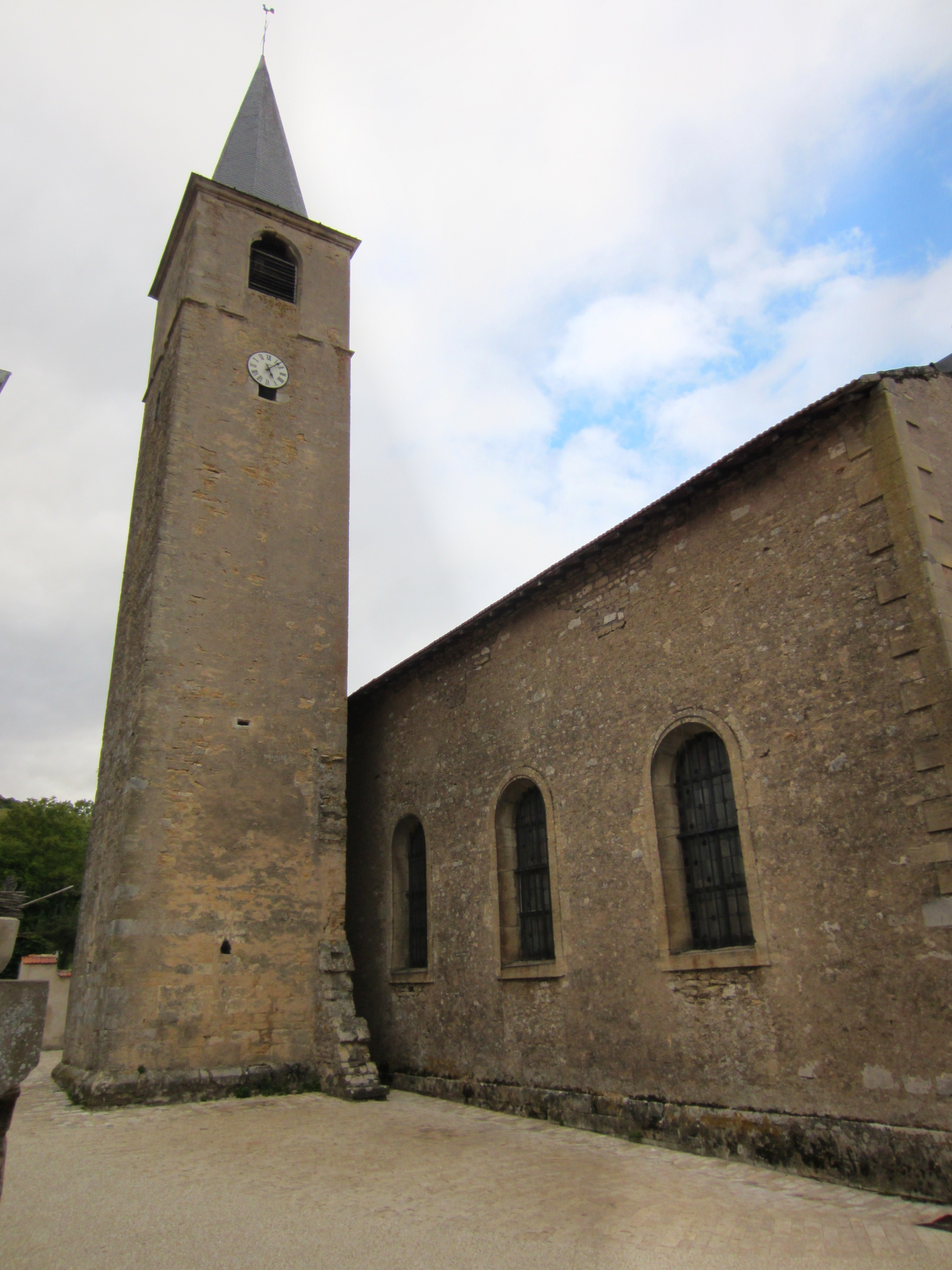 Description eglise Vandelainville Date13 September 2011Sourcemon appareil photoAuthorAimelaimePermission (Reusing this file) eglise Vandelainville